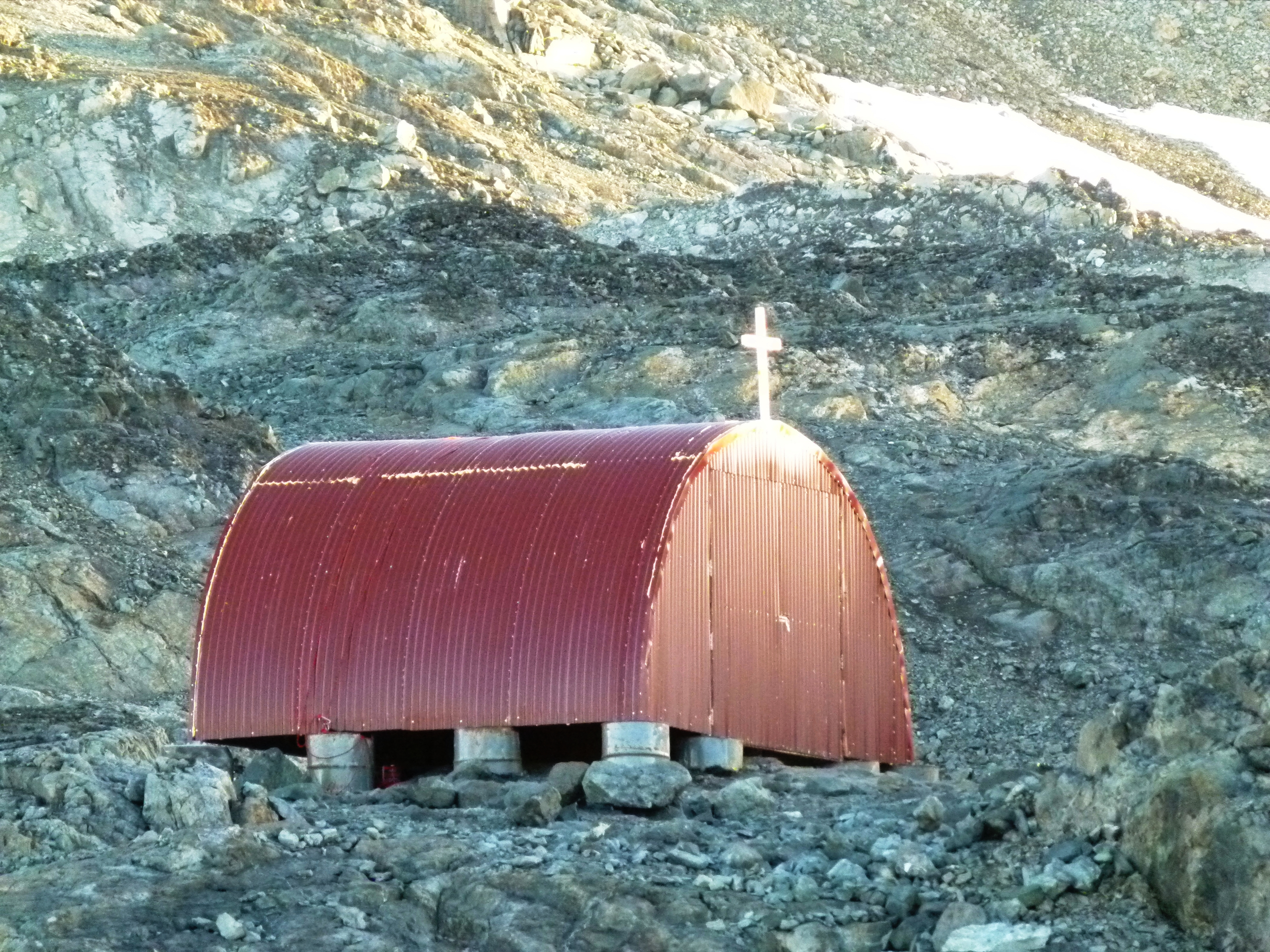 The new premises of St. Ivan Rilski Chapel in the Bulgarian base St. Kliment Ohridski on Livingston Island, Antarctica. For the old premises see File:Rilski.jpg